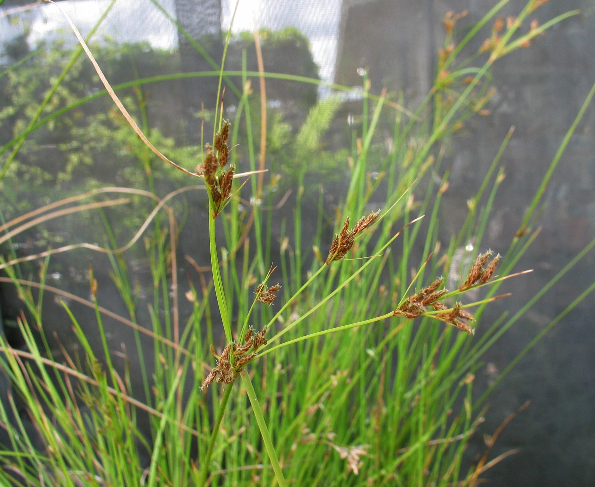 Forked fimbry Cyperaceae Indigenous to the Hawaiian Islands Oʻahu (Cultivated) NPH00005